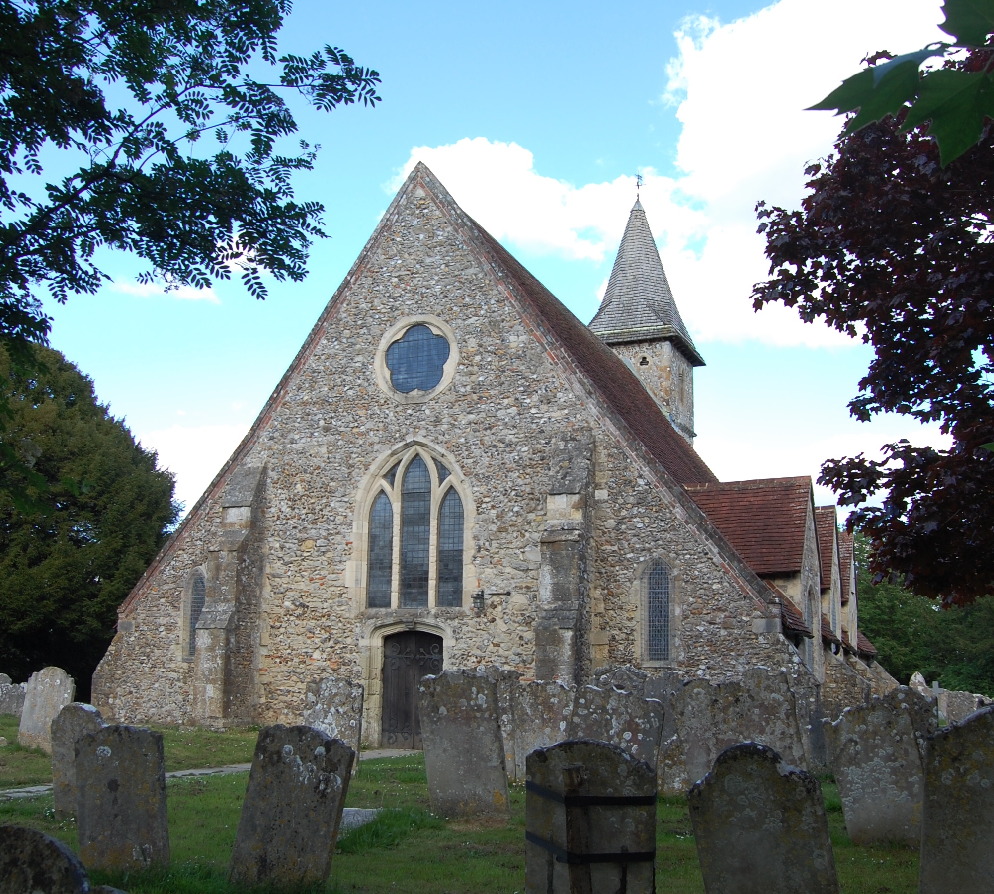 St Thomas a Becket's Church, Church Lane, Warblington, Hampshire, England. The Anglican parish church of Warblington. A Grade I-listed building.